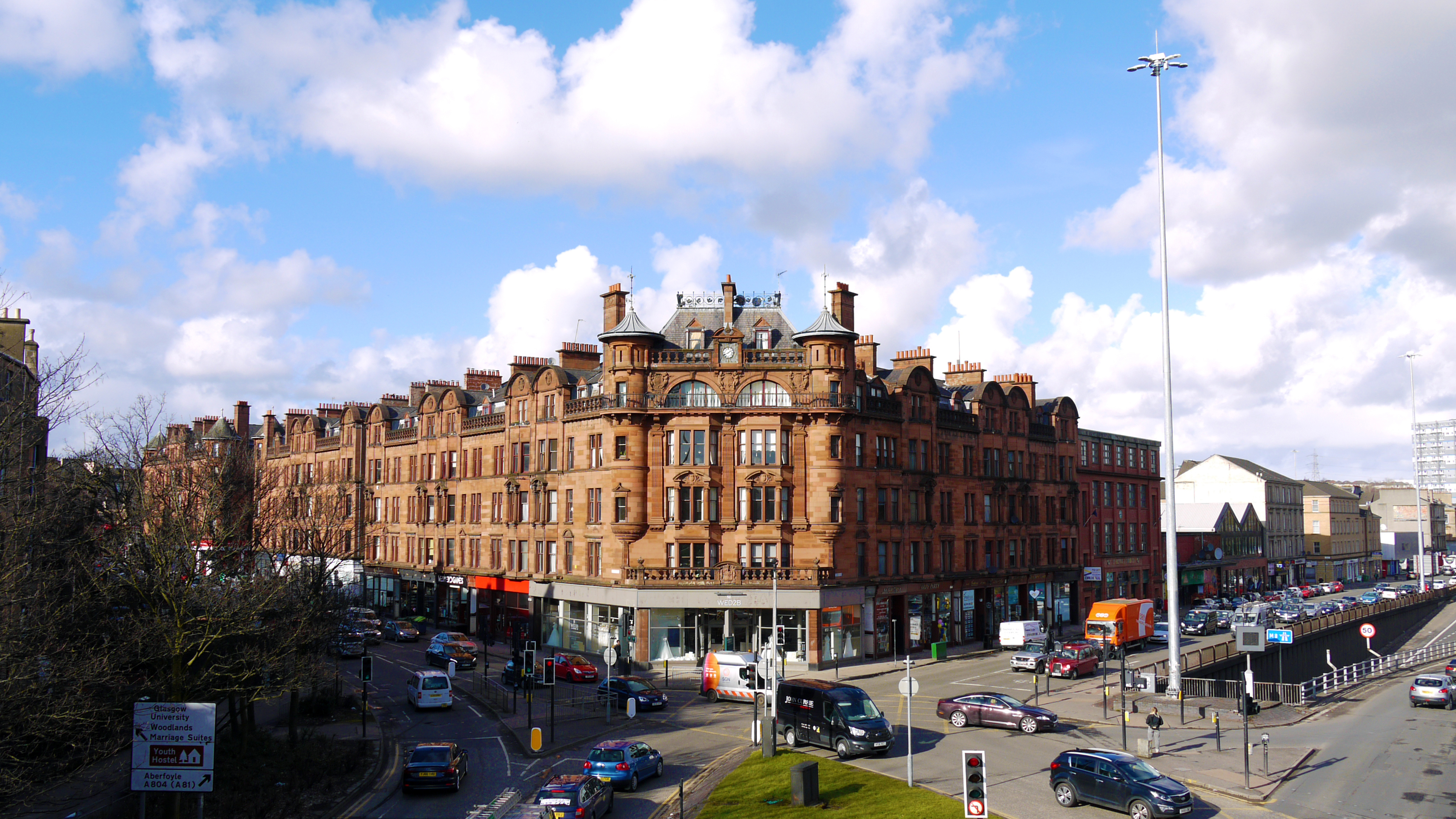 63-71 St George's Road Wikidata has entry Q17812310 with data related to this item.